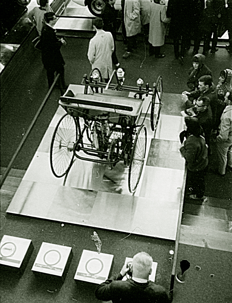 The motorised Daimler-Maybach. Expo 67, German Pavilion.